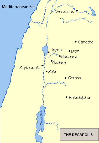 Less crowded version of the Decapolis Map